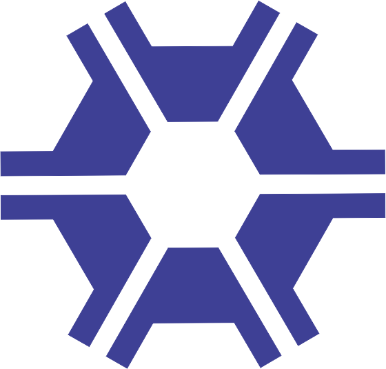 agronomia